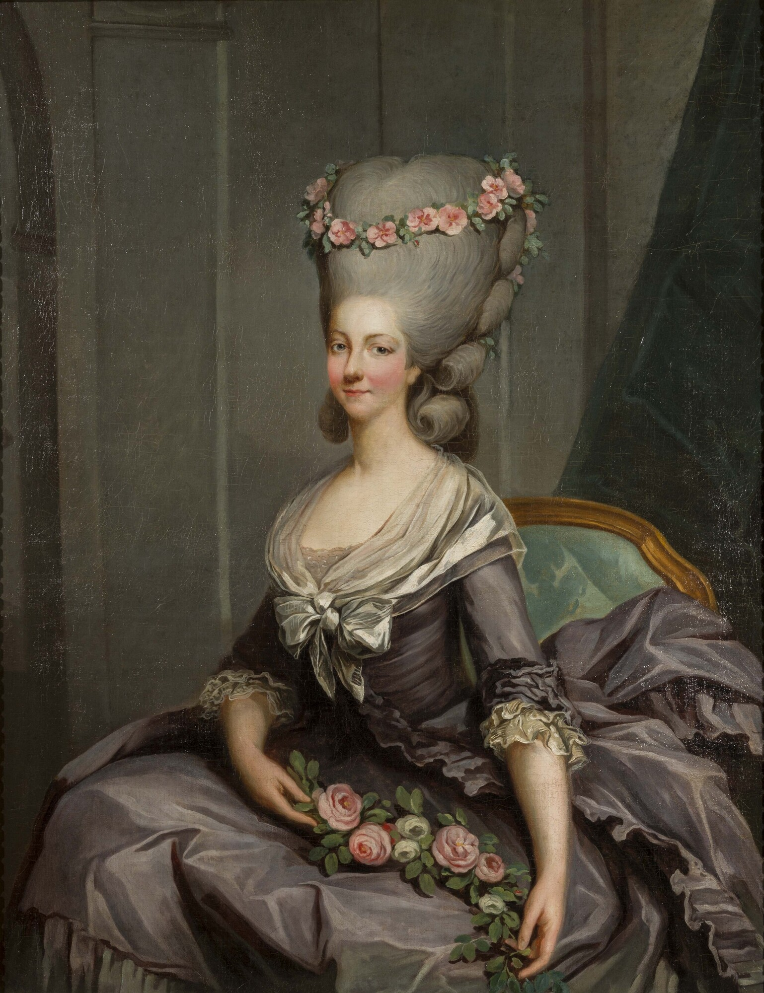 Portrait of the Princess of Lamballe in 1776by Callet.